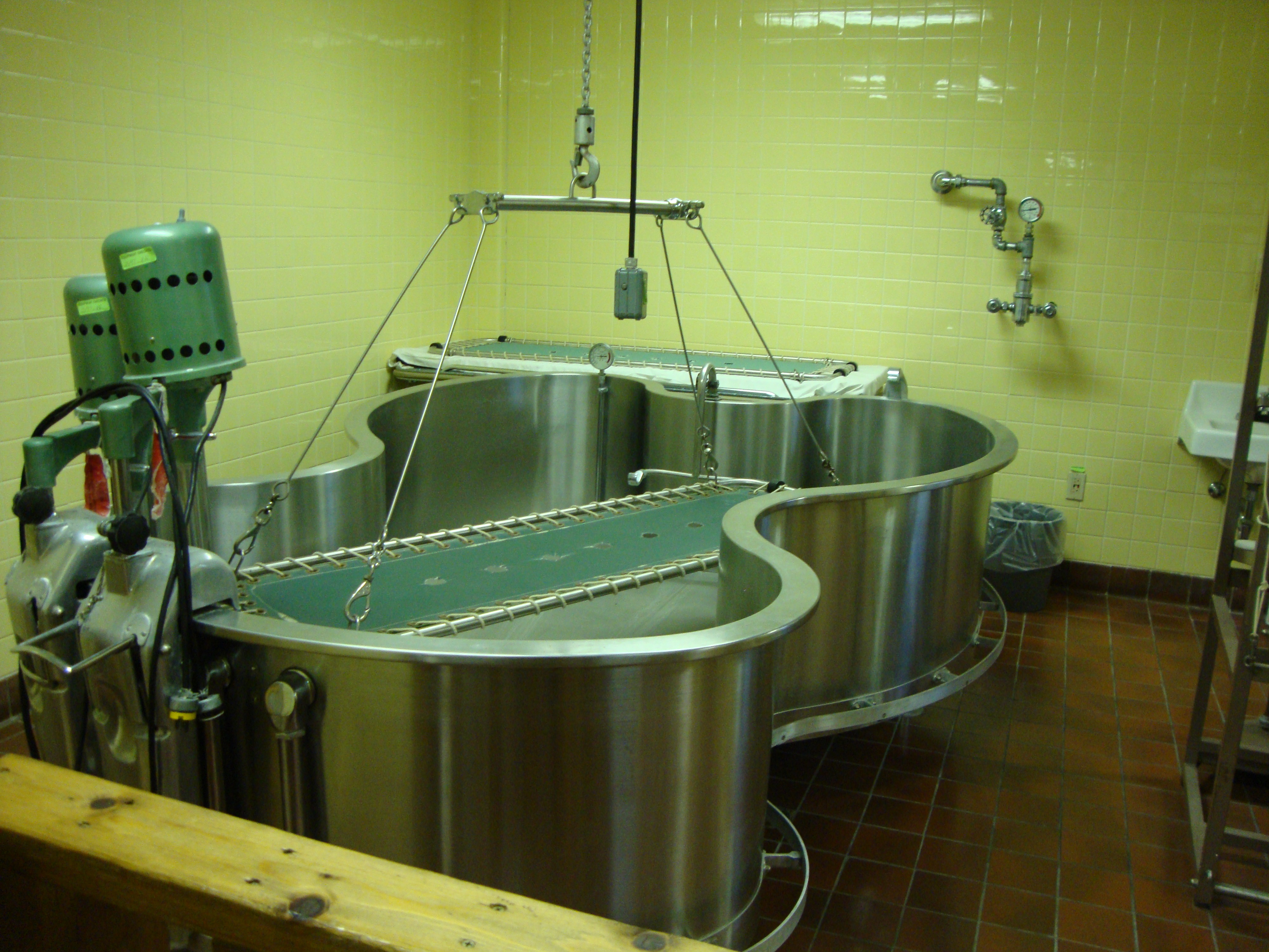 Device to rapidly immerse a patient into a bath of ice water, for psychiatric treatment